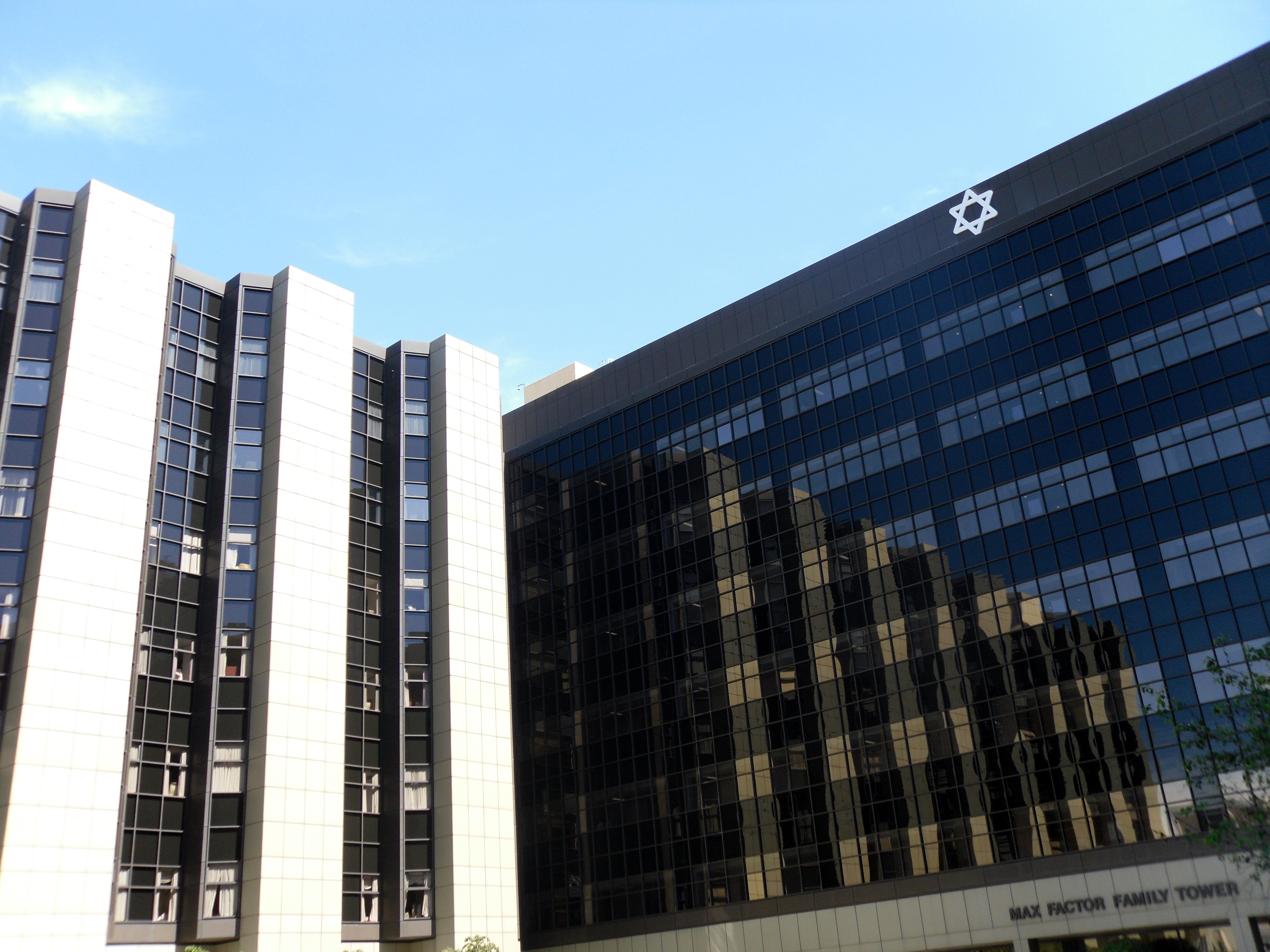 The Max Factor family tower at the Cedars-Sinai Medical Center.